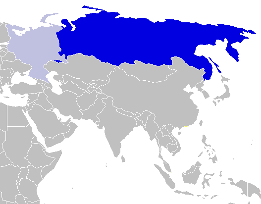 Map of North Asia subregion